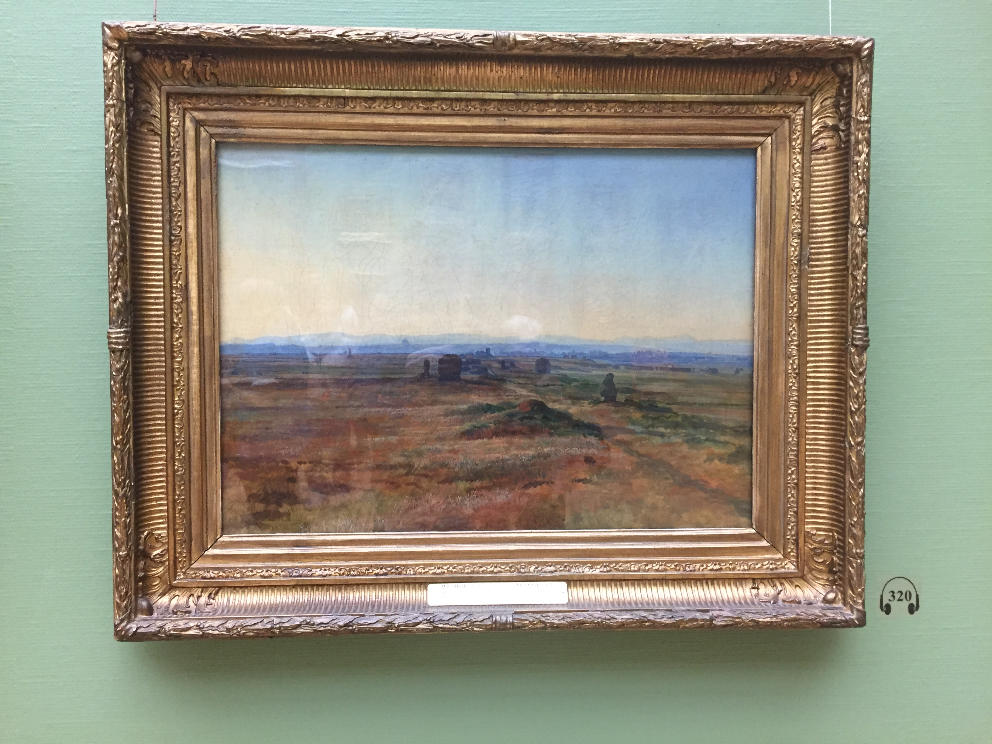 "Via Appia at sunset" (painting by Alexander Ivanov, 1845) in the State Tretyakov Gallery